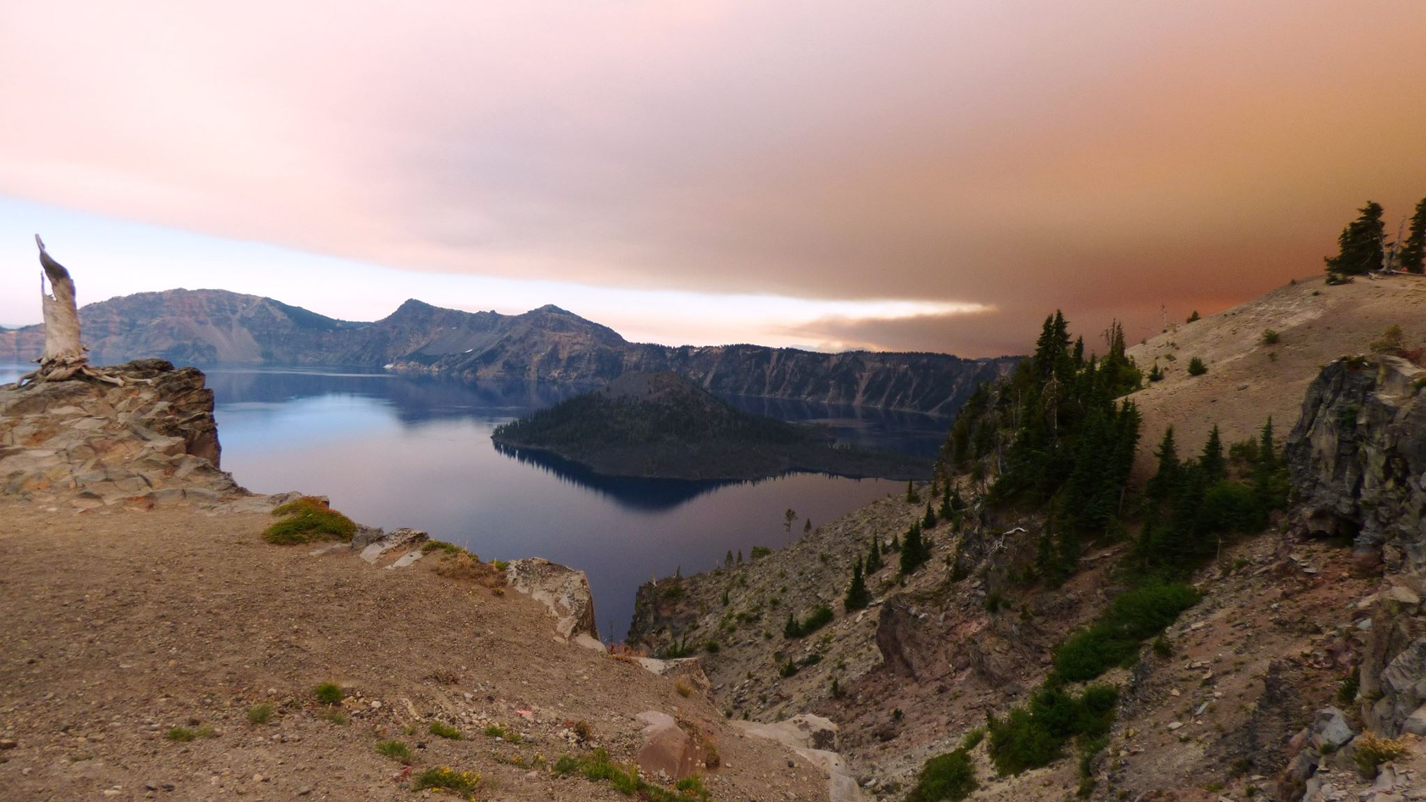 "Smoke from Blanket Creek late this afternoon"